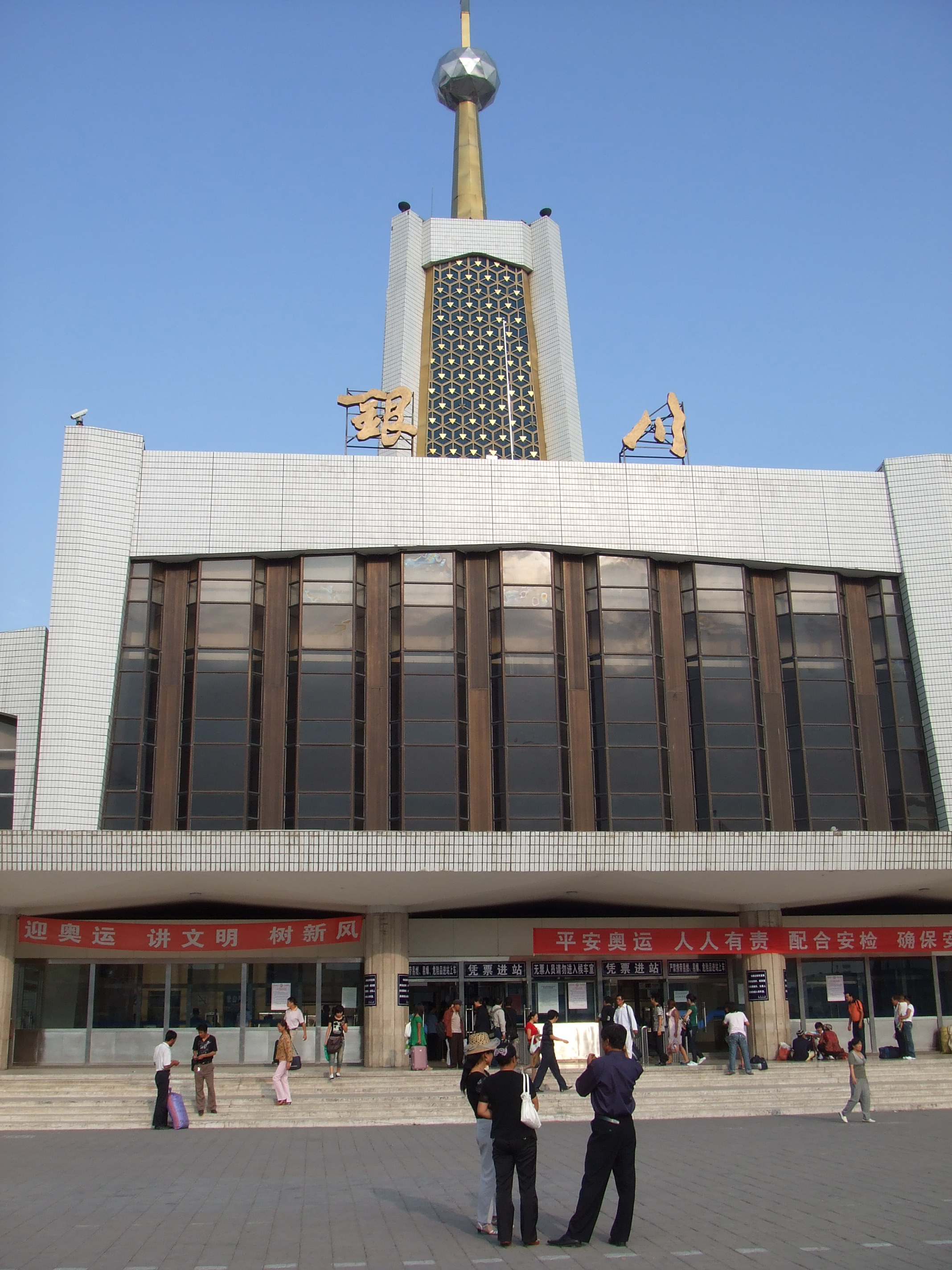 Railway station of Yinchuan, Ningxia, China